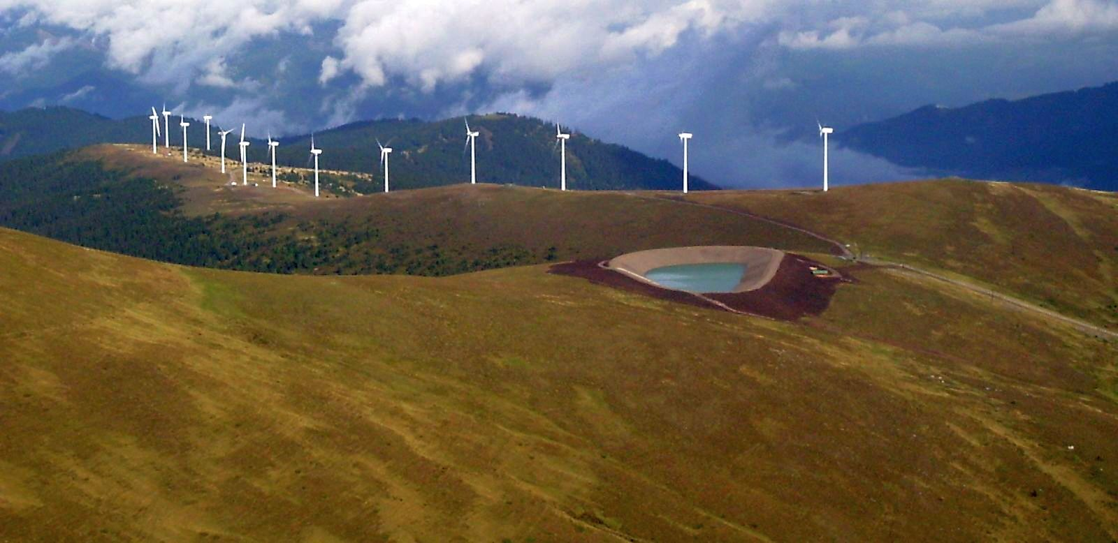 Pond for snow cannons and wind turbines in municipality Oberzeiring at Steiner Kogel, in Rottenmanner und Wölzer Tauern, Styria, Austria. 2008.